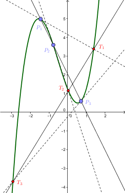 Three collinear ponts from a cubic (in blue). For each if them, one can see the intersection point (in red) of the tangent line of the cubic at that point and the cubic itself. The three red points are collinear too.